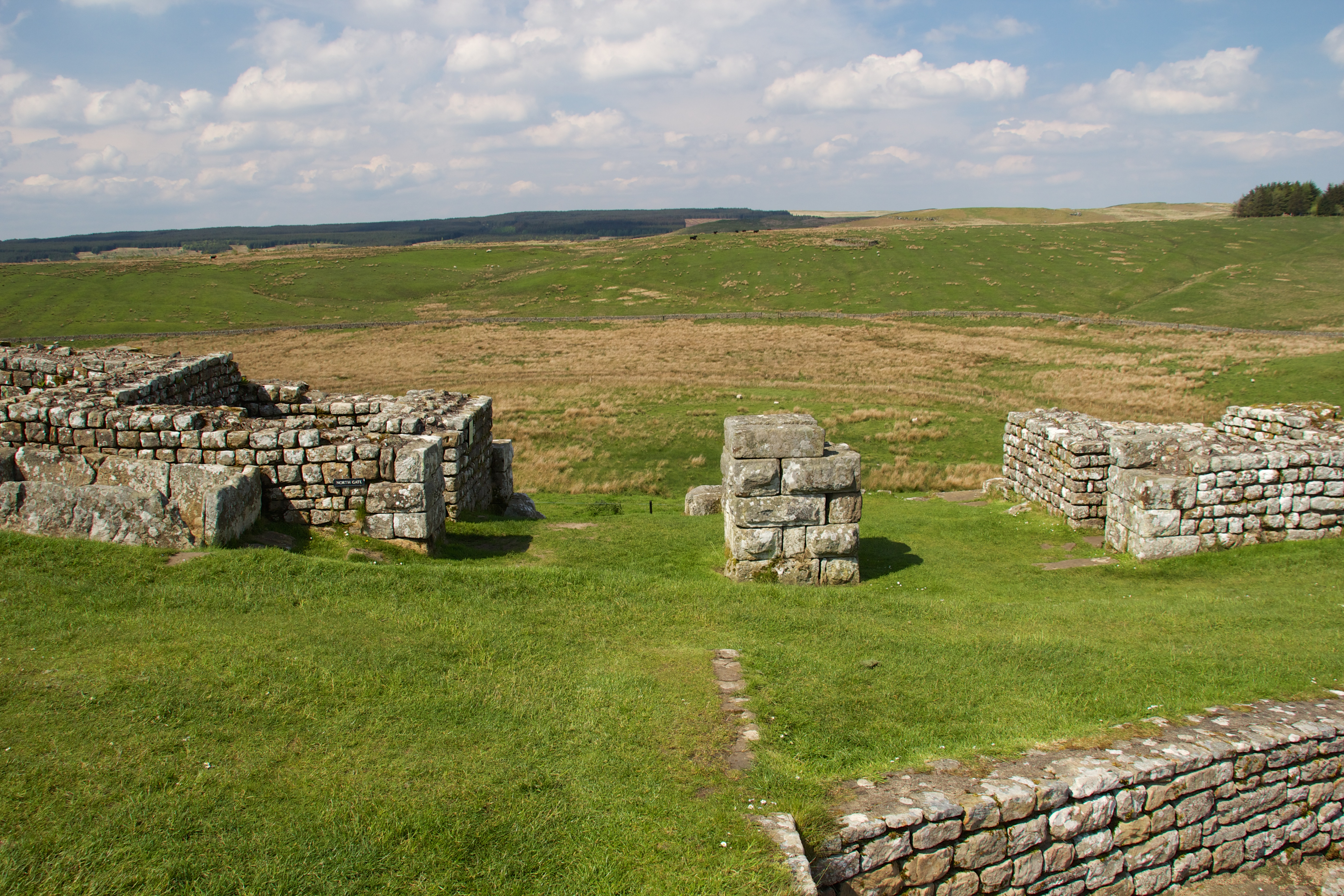 North Gate at Housesteads Roman Fort on Hadrian's Wall.